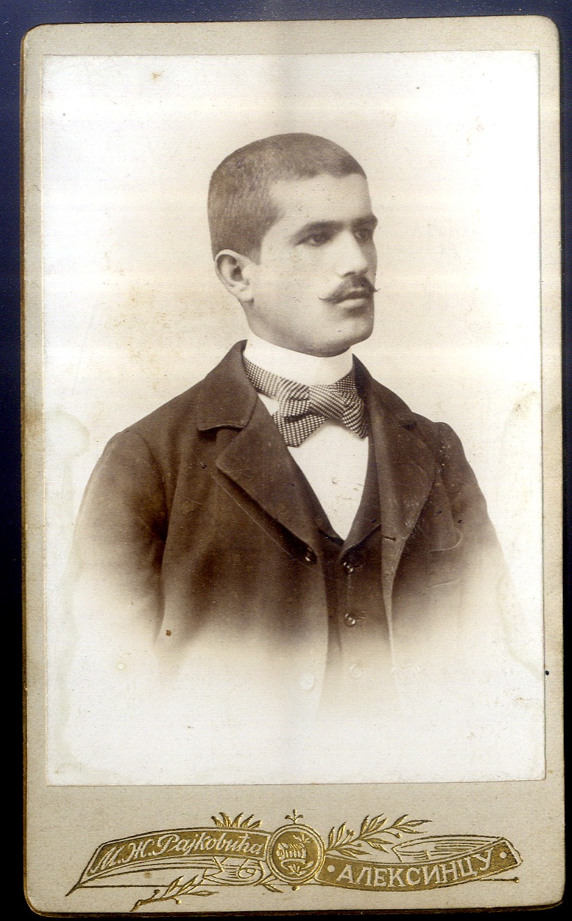 The photo is a portrait of ethnologist Jeremija M. Pavlovic, from the legacy of Tihomir R. Djordjevic.